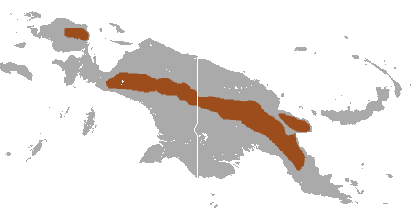 Narrow-striped Marsupial Shrew (Phascolosorex dorsalis) range